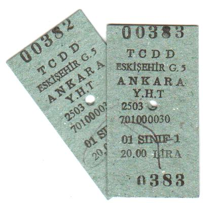 Rail Ticket of Turkish State Railways